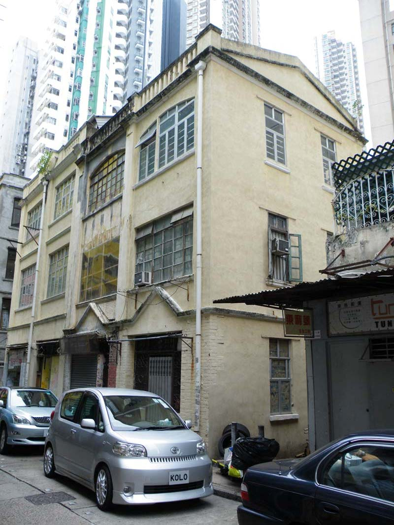 6, 8 Hing Wan Street